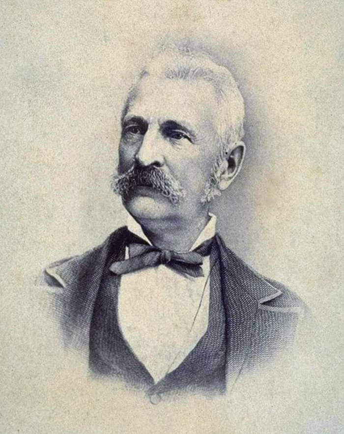 Serranus Clinton Hastings (1813-1893), 3rd Chief Justice of the Iowa Supreme Court, 1st Chief Justice of the California Supreme Court, founder of Hastings College of Law (San Francisco, California)